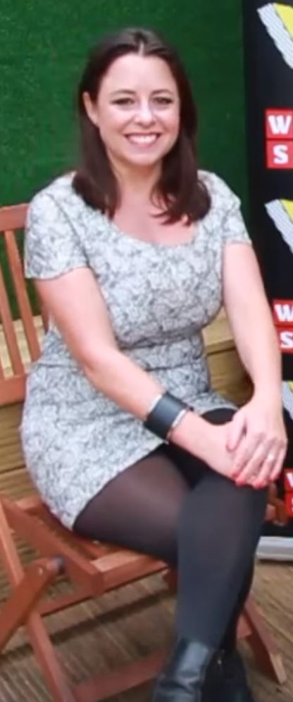 Cropped video still of Myf Warhurst in an interview with Waffle TV at the Edinburgh Festival Fringe 2013